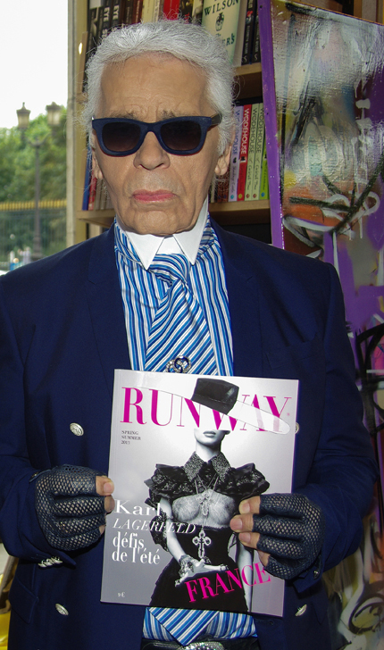 Karl Lagerfeld with new issue at the cover launch of Runway France magazine in WHSmith in Paris, France, 2013